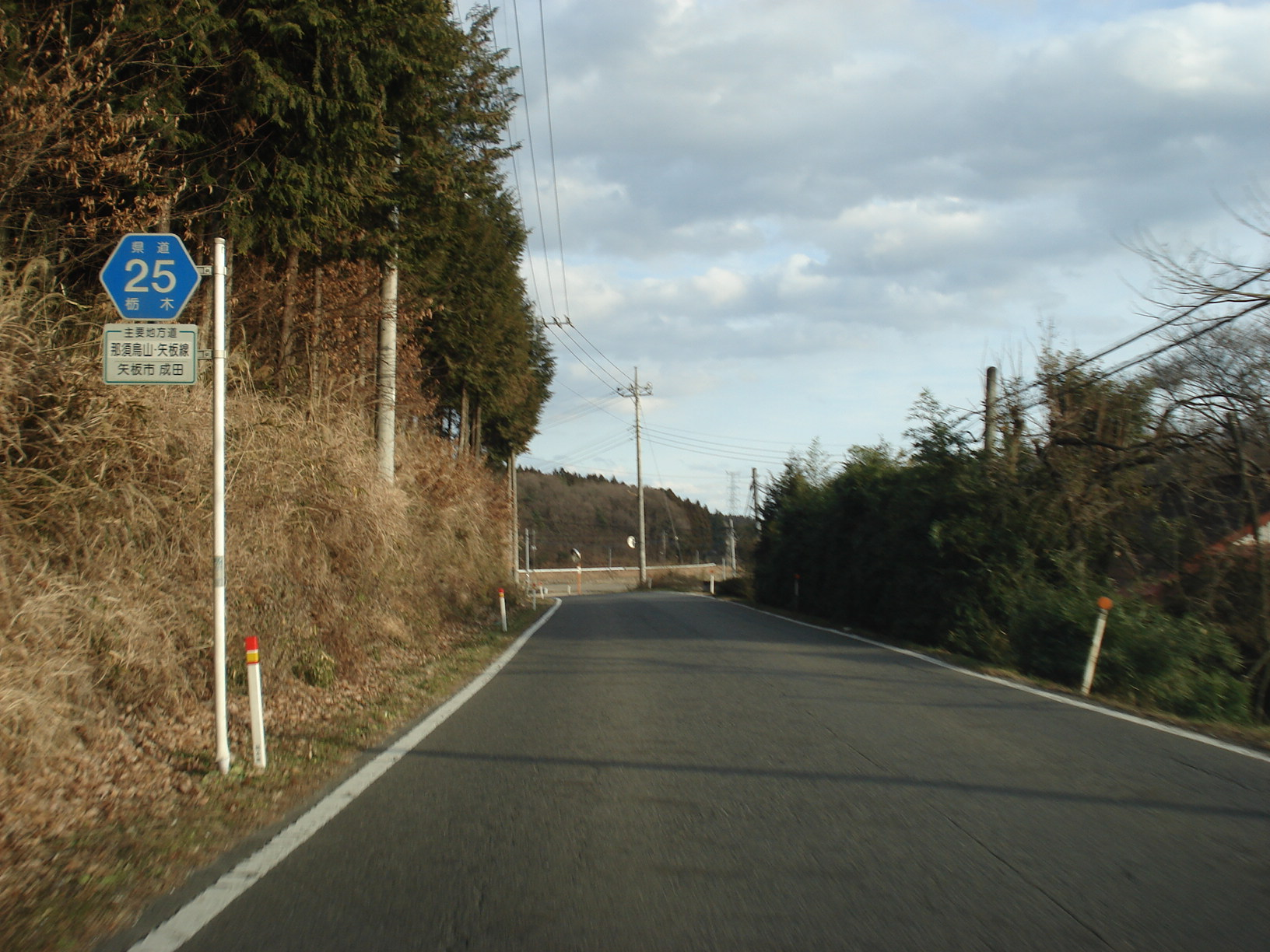 The Tochigi Prefectural Road Route 25 in Narita, Yaita City